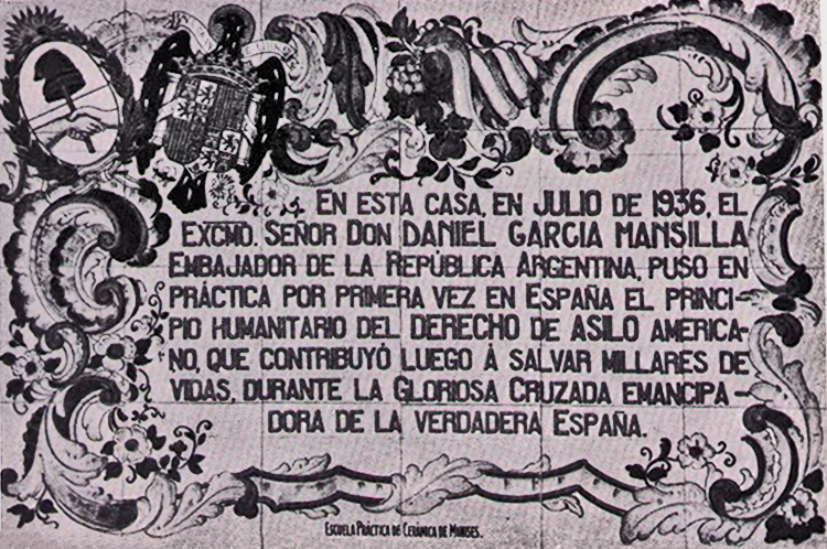 Homenaje a Daniel García-Mansilla en Zarauz, Guipúzcoa, España, 1940, con motivo haber puesto en práctiva por primera vez en España el Principio humanitario del Derecho de Asilo.